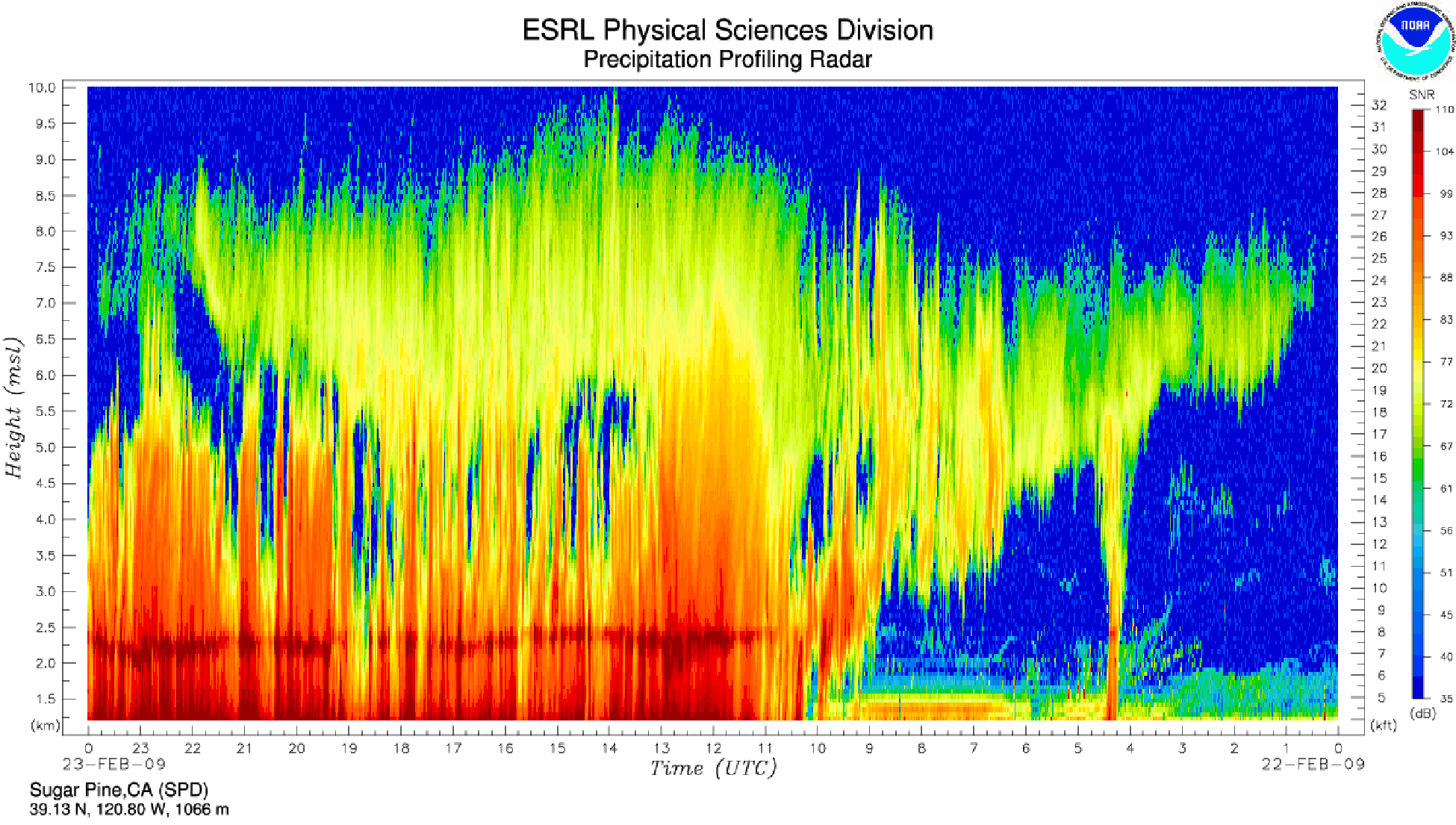 Reflectivities noted by a wind profiler in California. The data clearly show a descending upper cloud (note time increases from right to left in this display) that reaches the surface. The snow-level is indicated by the radar bright band at ~2.2 km MSL), as is the episodic decoupling between the upper cloud and the lower-altitude precipitation (note blue areas between 3.5-5.5 km MSL).